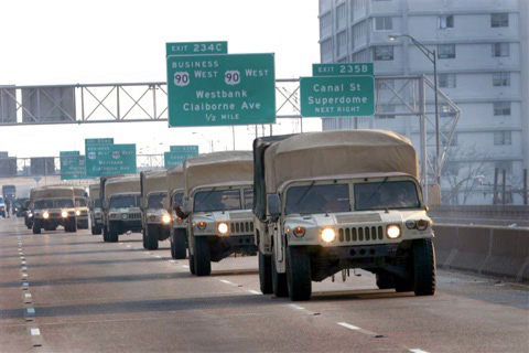 A Louisiana Army National Guard (LAARNG) convoy of High-Mobility Multipurpose Wheeled Vehicles (HMMWV) arrives in the city of New Orleans with relief supplies and personnel after Hurricane Katrina ravished the area. (A3614)